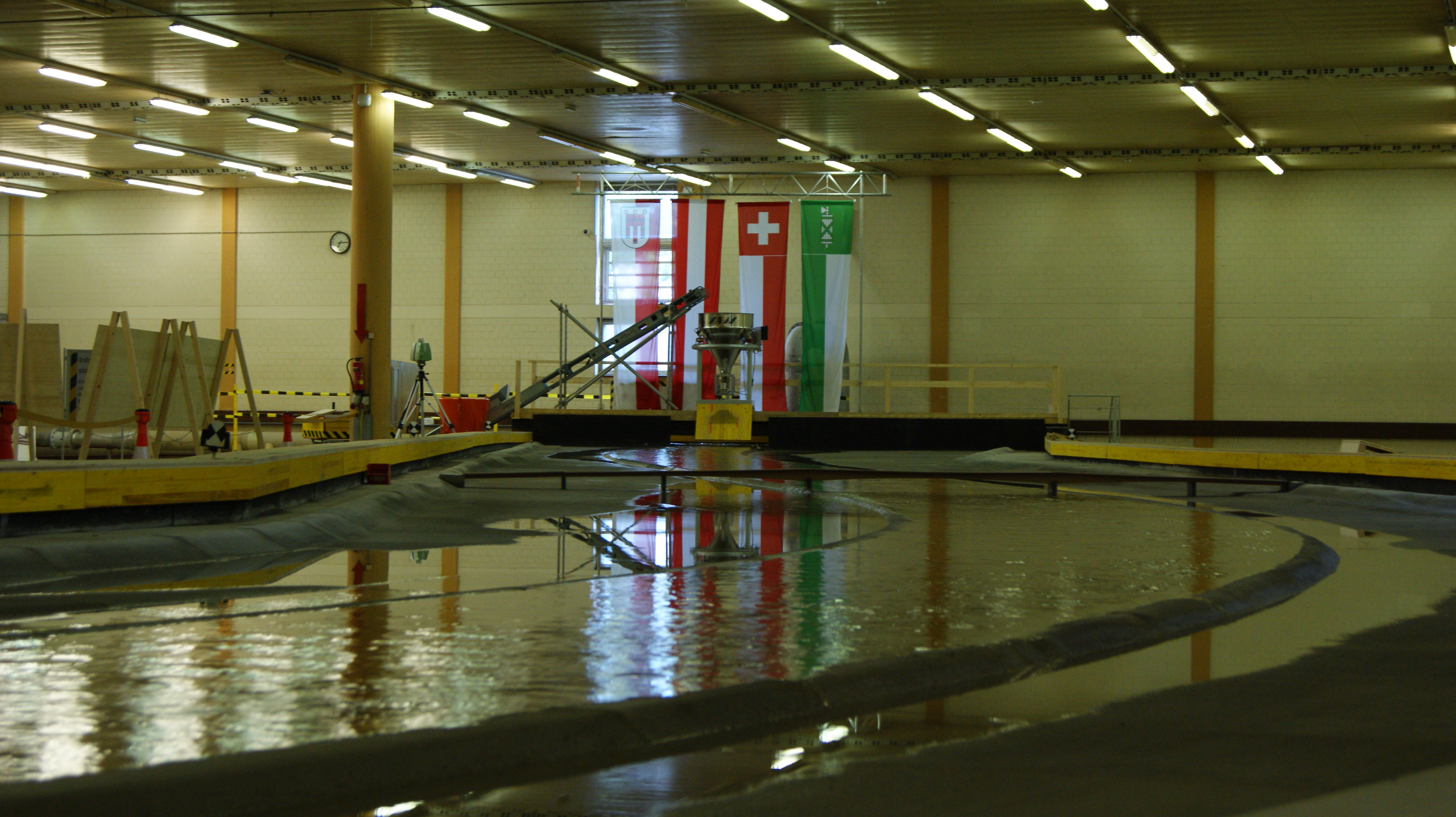 Exhibition and test facility RHESI in Dornbirn, Vorarlberg, Austria.